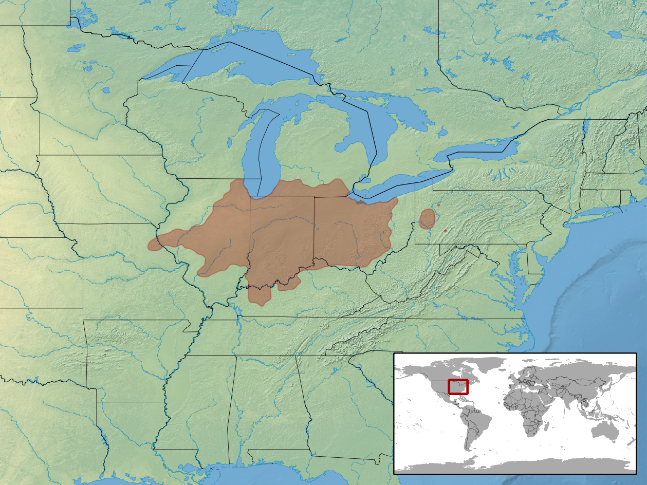 geographic distribution of Clonophis kirtlandii (Native: United States)